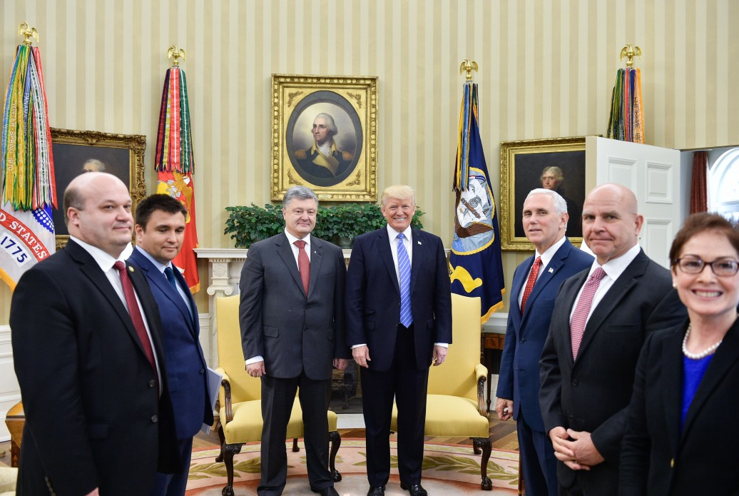 Working visit to the United States of America